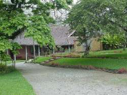 Museo Trapiche de Los Clavo, forma parte del patrimonio artistico,cultural e historico de Bocono.